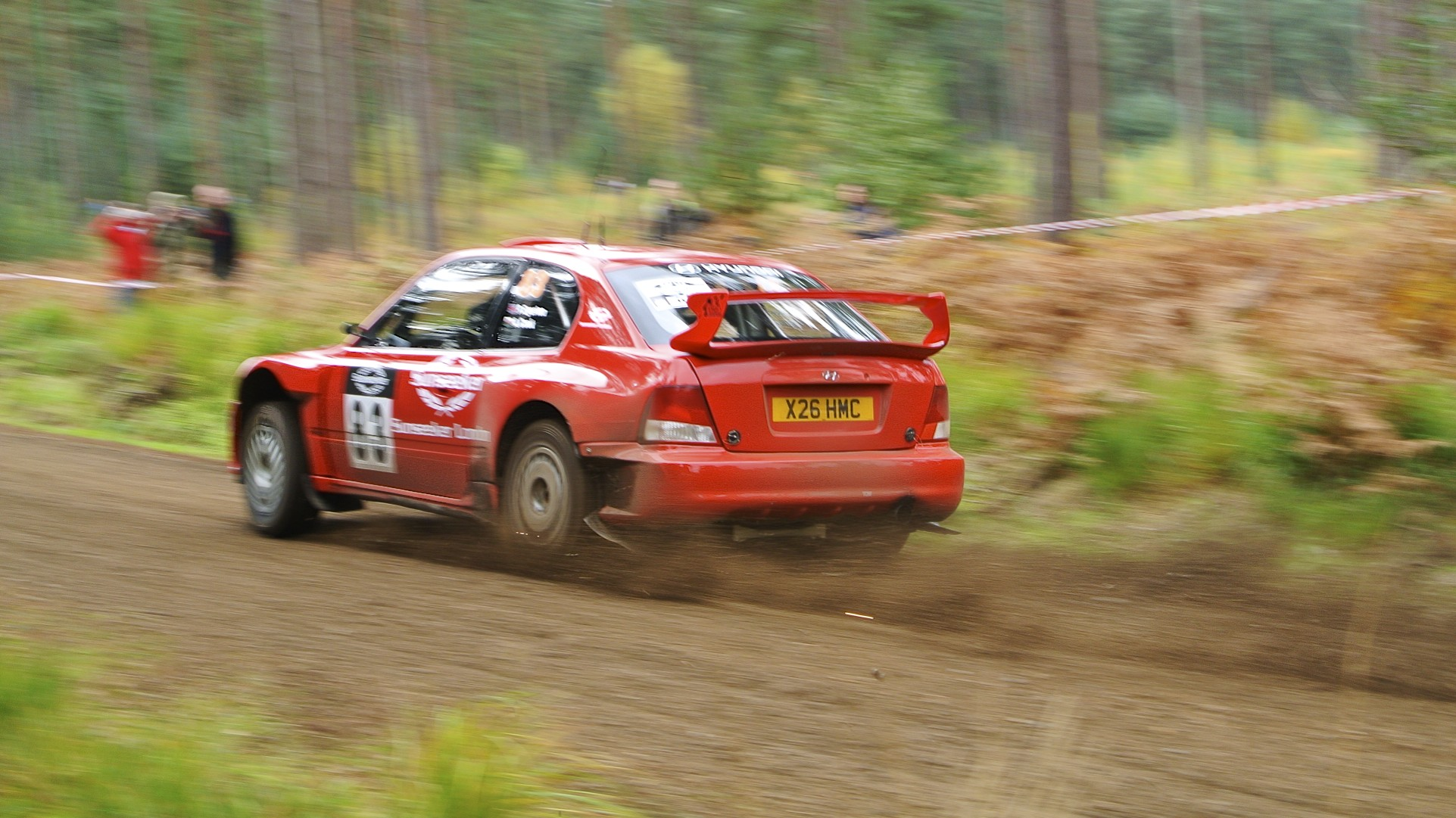 A super day out at the rally - and the rain held off too! Various classes of cars were racing from historic classics right up to current top spec factory cars. For sheer fun and exuberance nothing can beat the sight of a well driven rear wheel drive Escort and who does not enjoy the classic Mini, or a Saab? All photos taken with the Nikon V1 camera in S mode, a slowish shutter speed was used to enable panning with a blurred background.